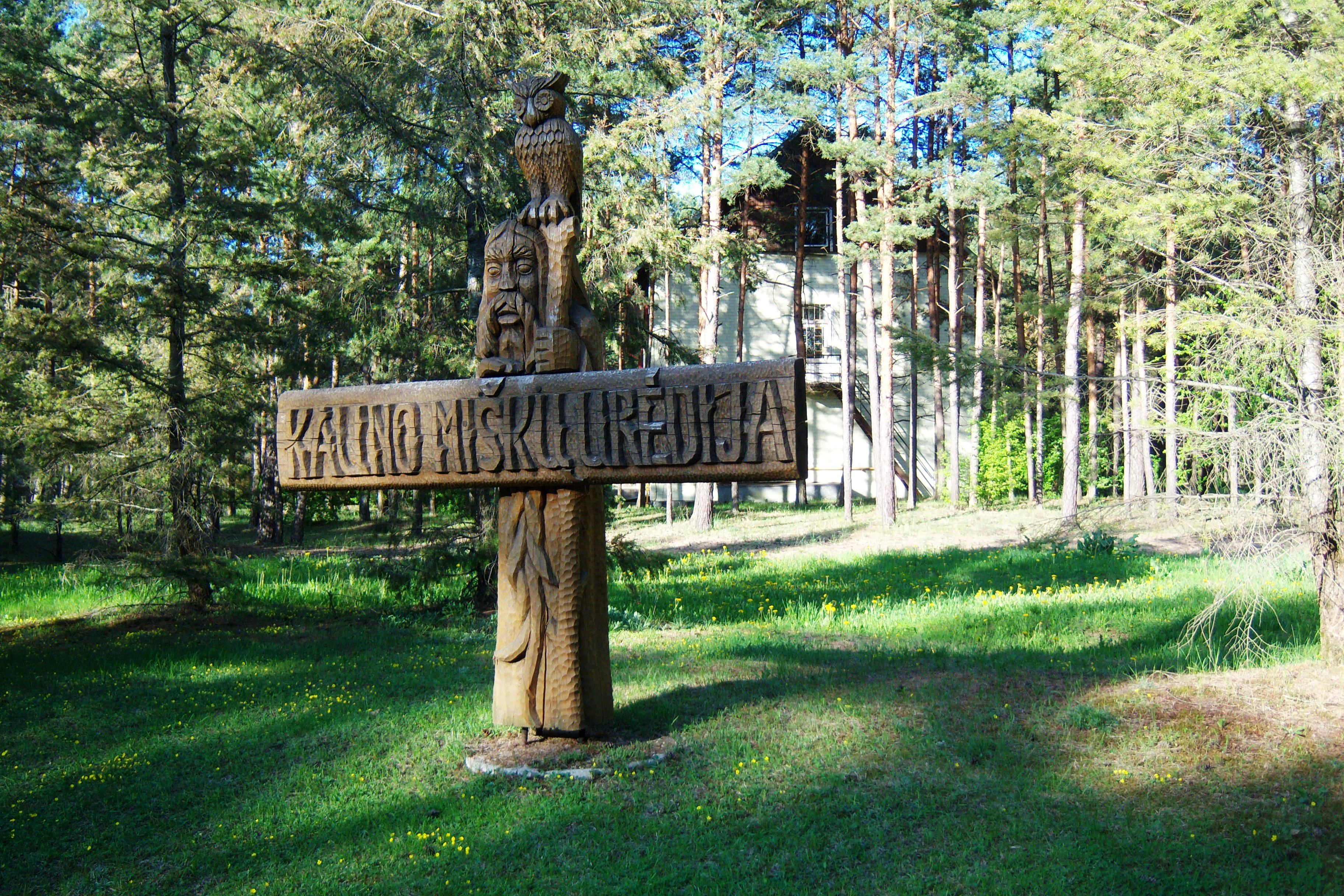 Kaunas Forest Enterprise, Lithuania